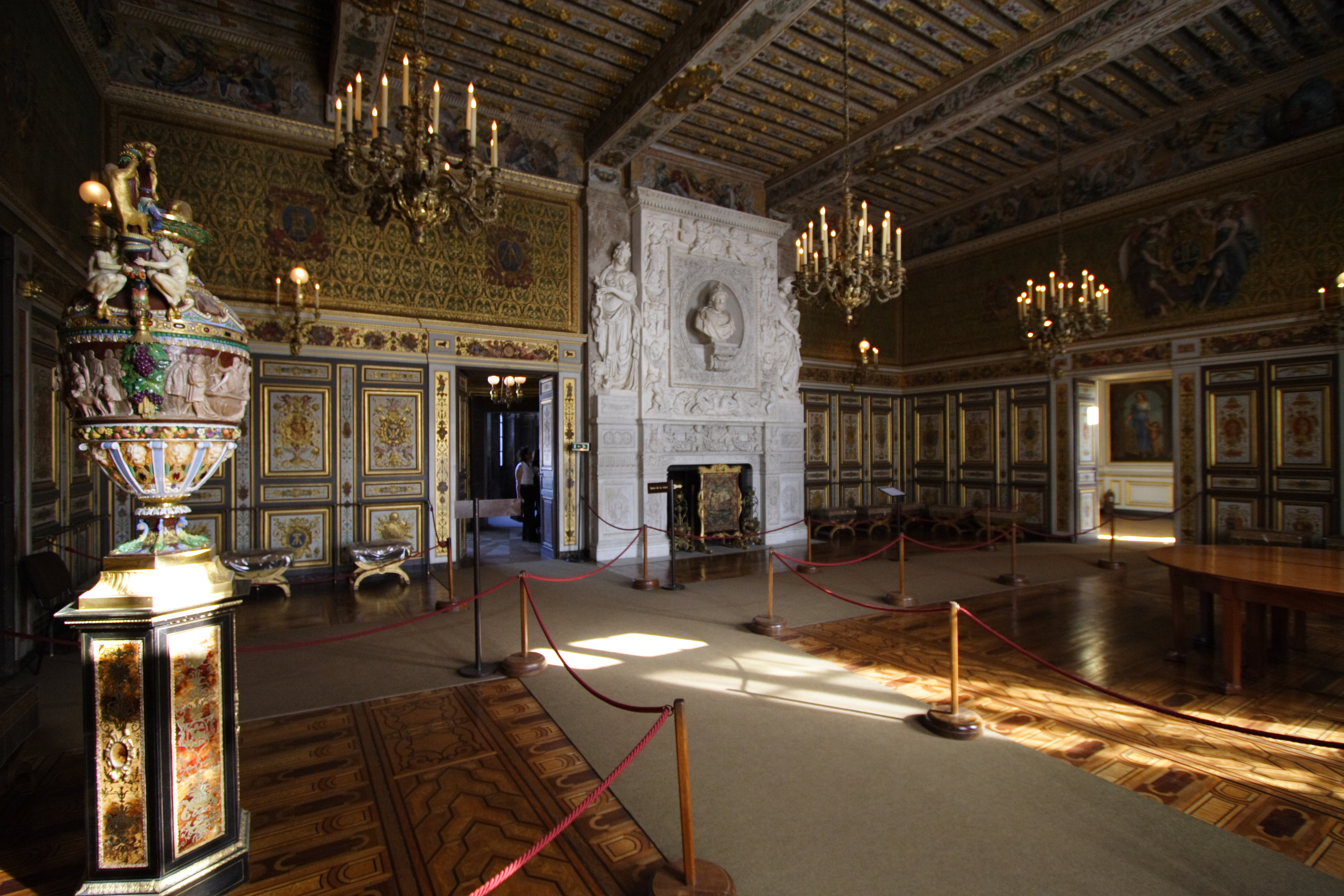 The room of the guards in the Palace of Fontainebleau